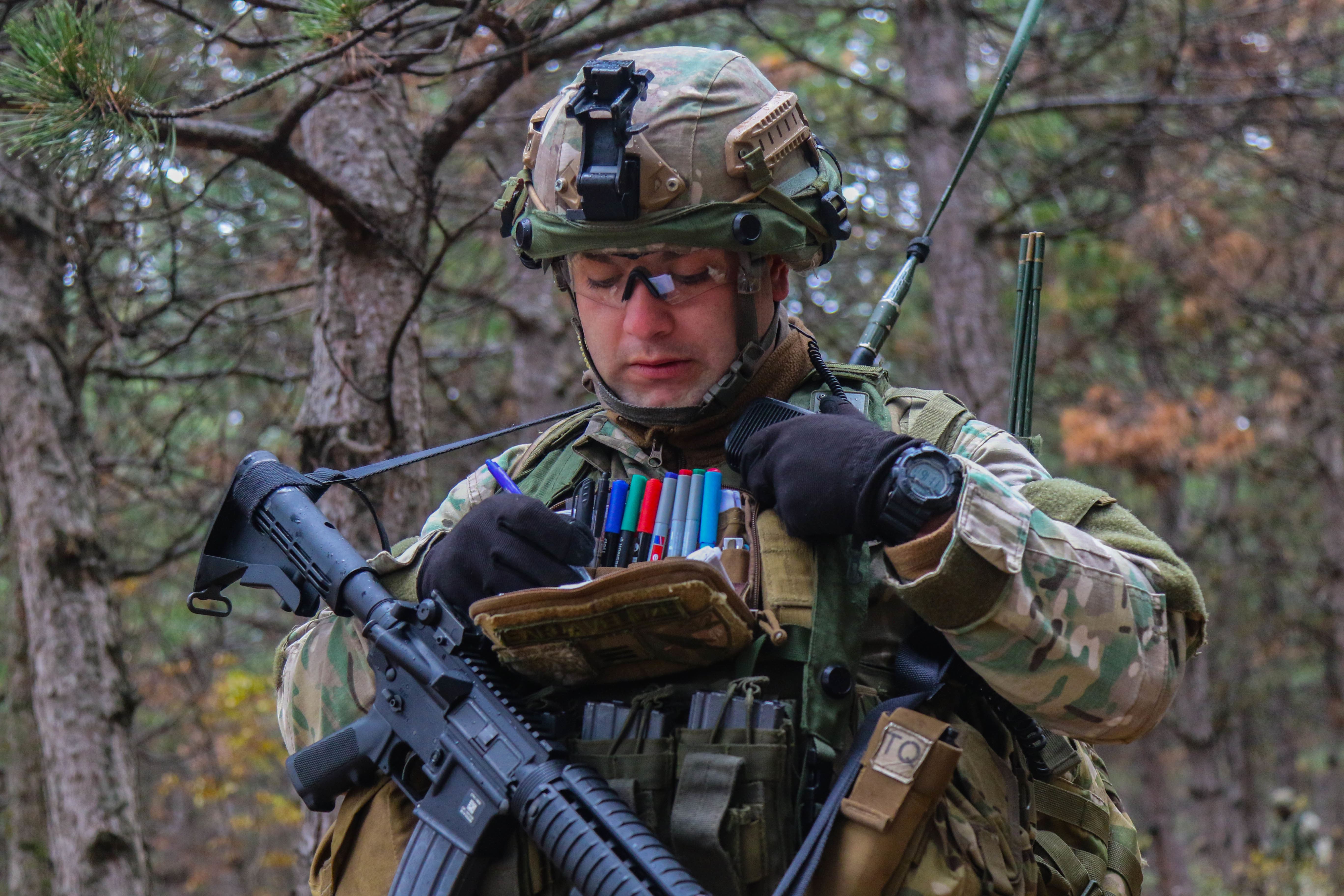 A Georgian army soldier takes down grid coordinates during the Georgia Defense Readiness Program-Training (GDRP-T) at Vaziani, Georgia, Nov. 12, 2018. U.S. Soldiers assisted with the GDRP-T to improve interoperability with our allies and partners and maintain the advantage against future threats. (U.S. Army photo by Spc. William Dickinson)